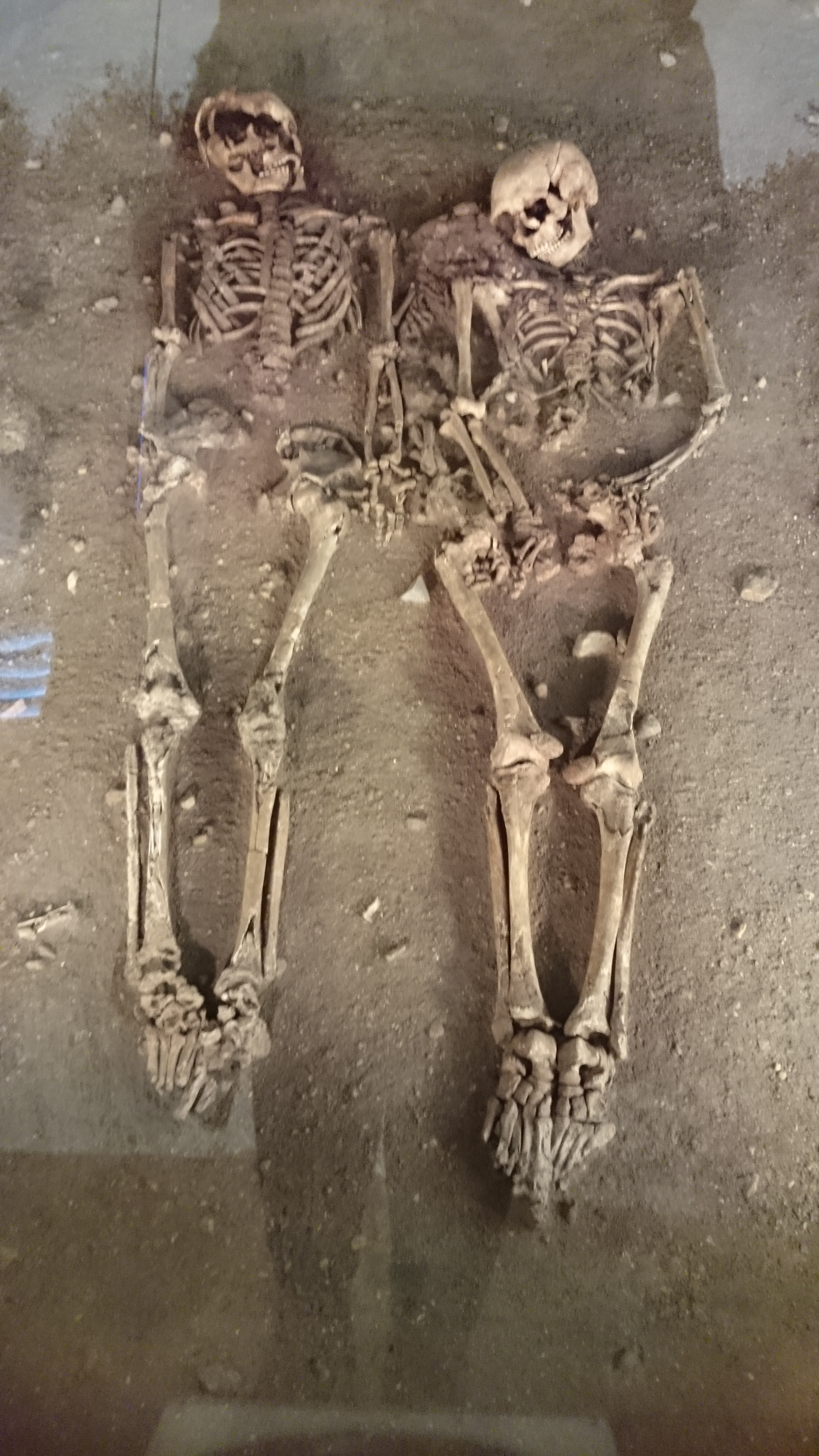 Et par.